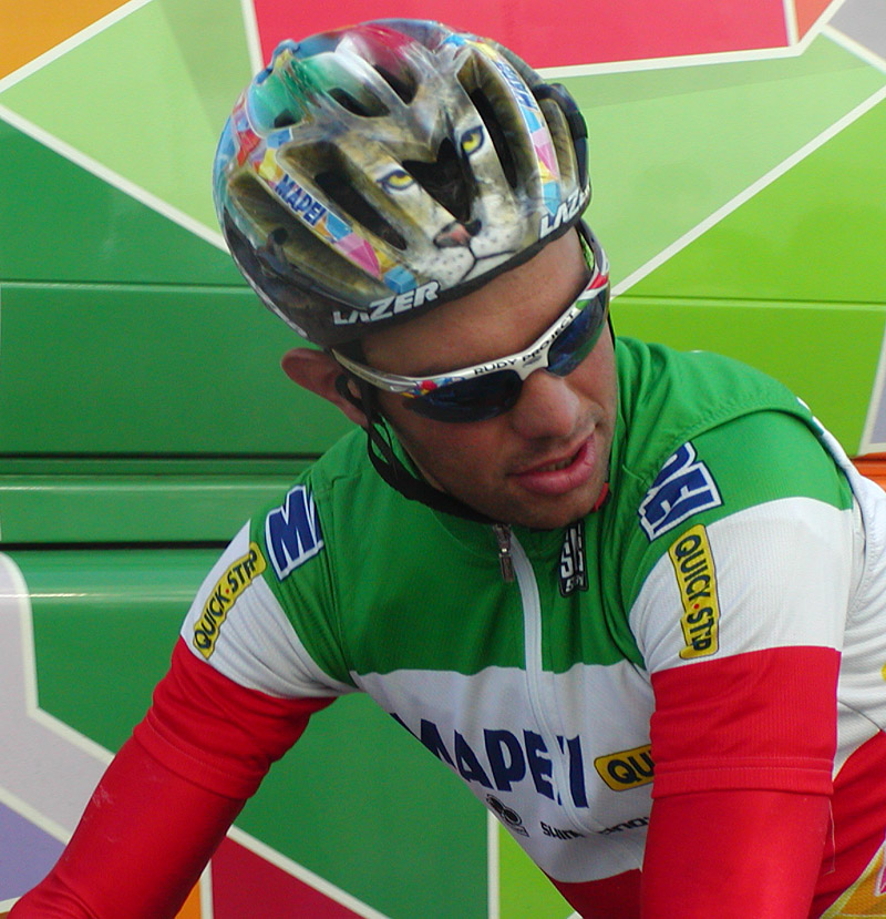 Daniele Nardello as Italian champion at the start of Liège-Bastogne-Liège in 2002